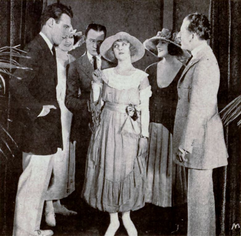 Still from the American comedy drama film The Husband Hunter (1920) with Eileen Percy, the other actors are not identified, on page 114 of the October 9, 1920 Exhibitors Herald.